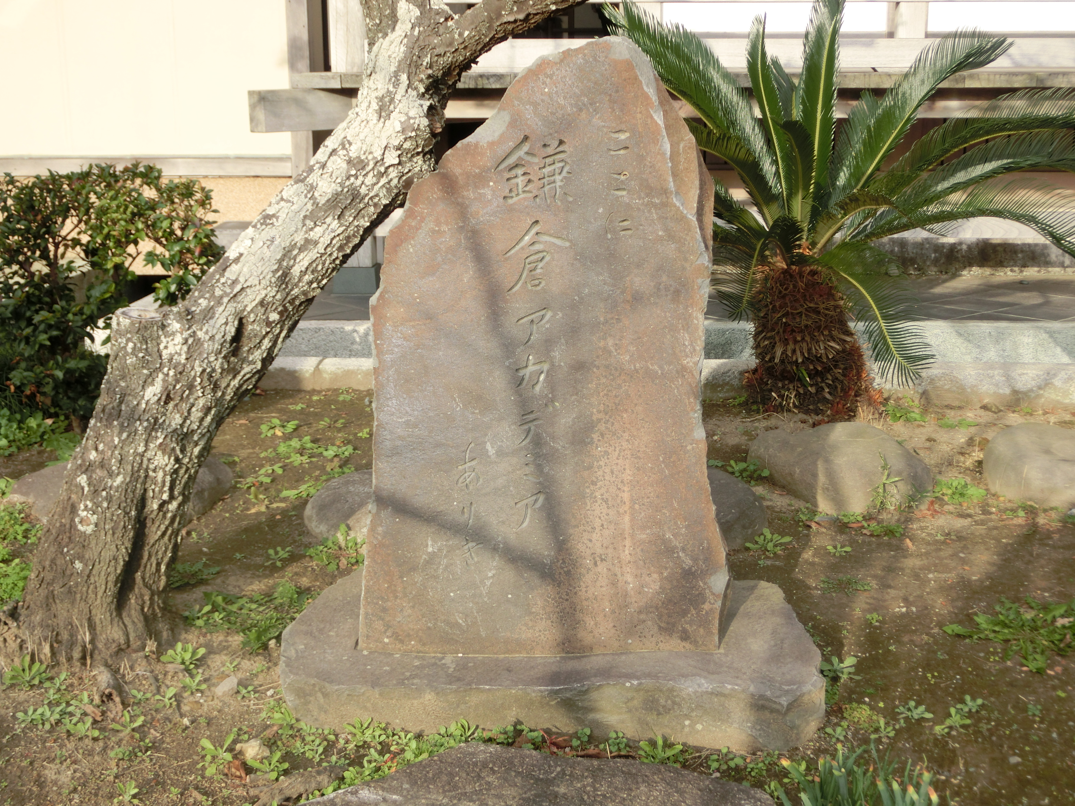 Kamakura Academia monument